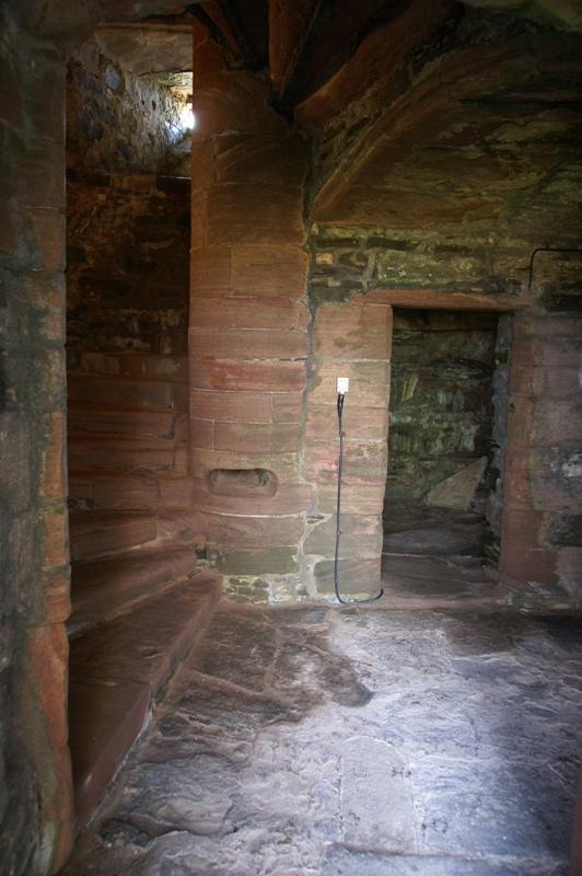 Noltland Castle, Westray, Orkney, Scotland. Ground-floor of southwest tower.